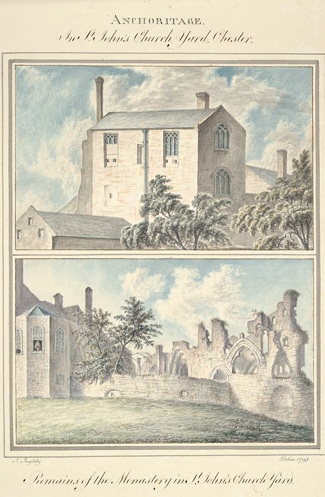 Anchoritage in St John's parish churchyard, Chester; Remains of the monastery in St John's churchyard, 1793